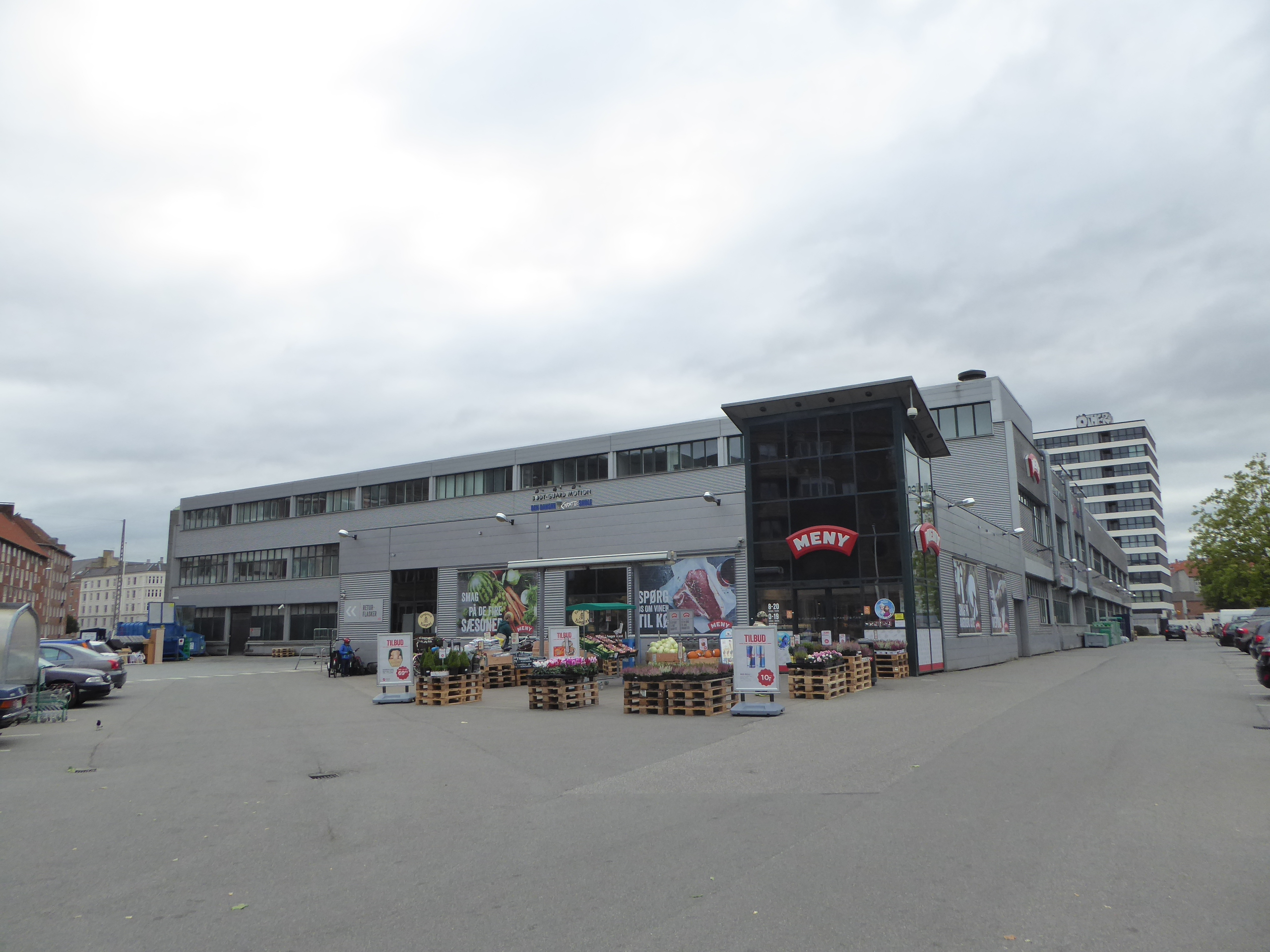 The former Bryggervangens Supermarked, now a part of the supermarket chain Meny, at Bryggervangen in Østerbro in Copenhagen.